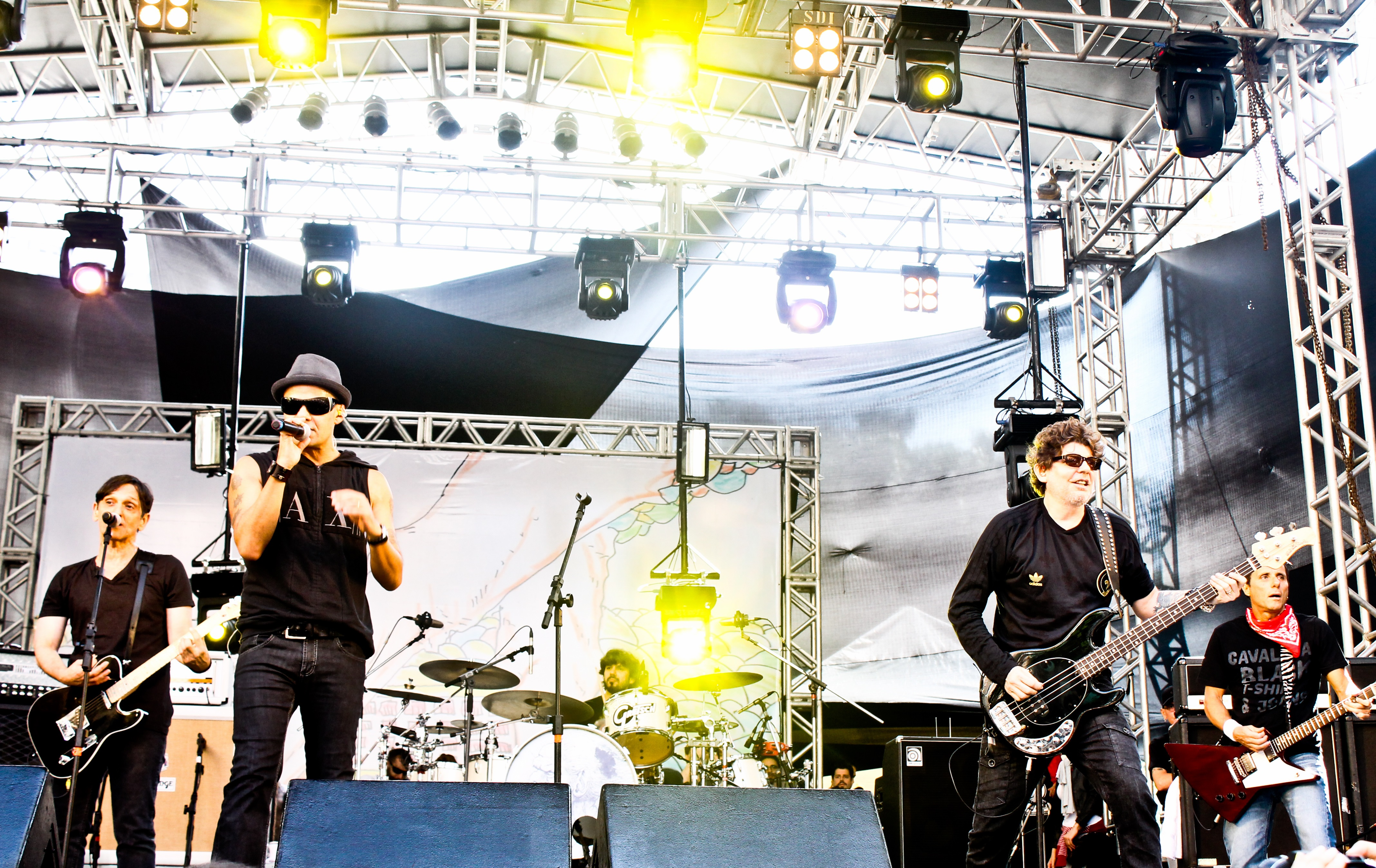 Titãs live in 2012. From left to right: Paulo Miklos, Sérgio Britto, Mário Fabre (session member), Branco Mello and Tony Bellotto